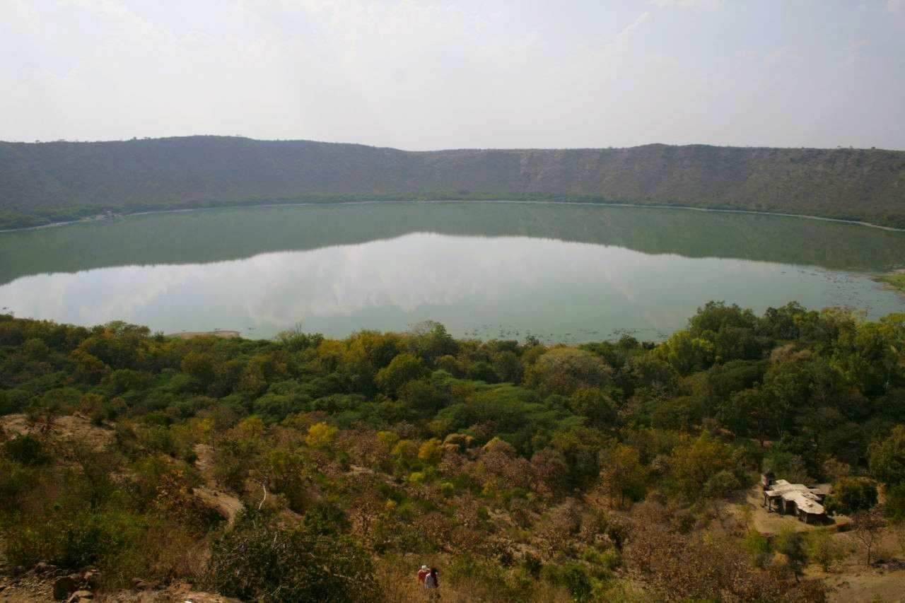 View of the meteorite crater at Lonar. This picture is shot from the edge of the crater on the side of the MTDC resort.